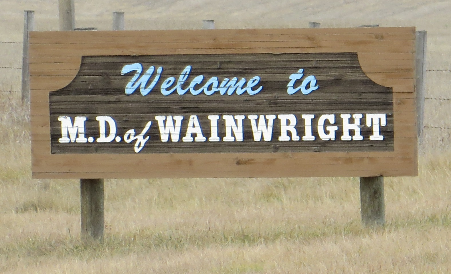 A sign welcoming motorists to the MD of Wainwright, Alberta, Canada.